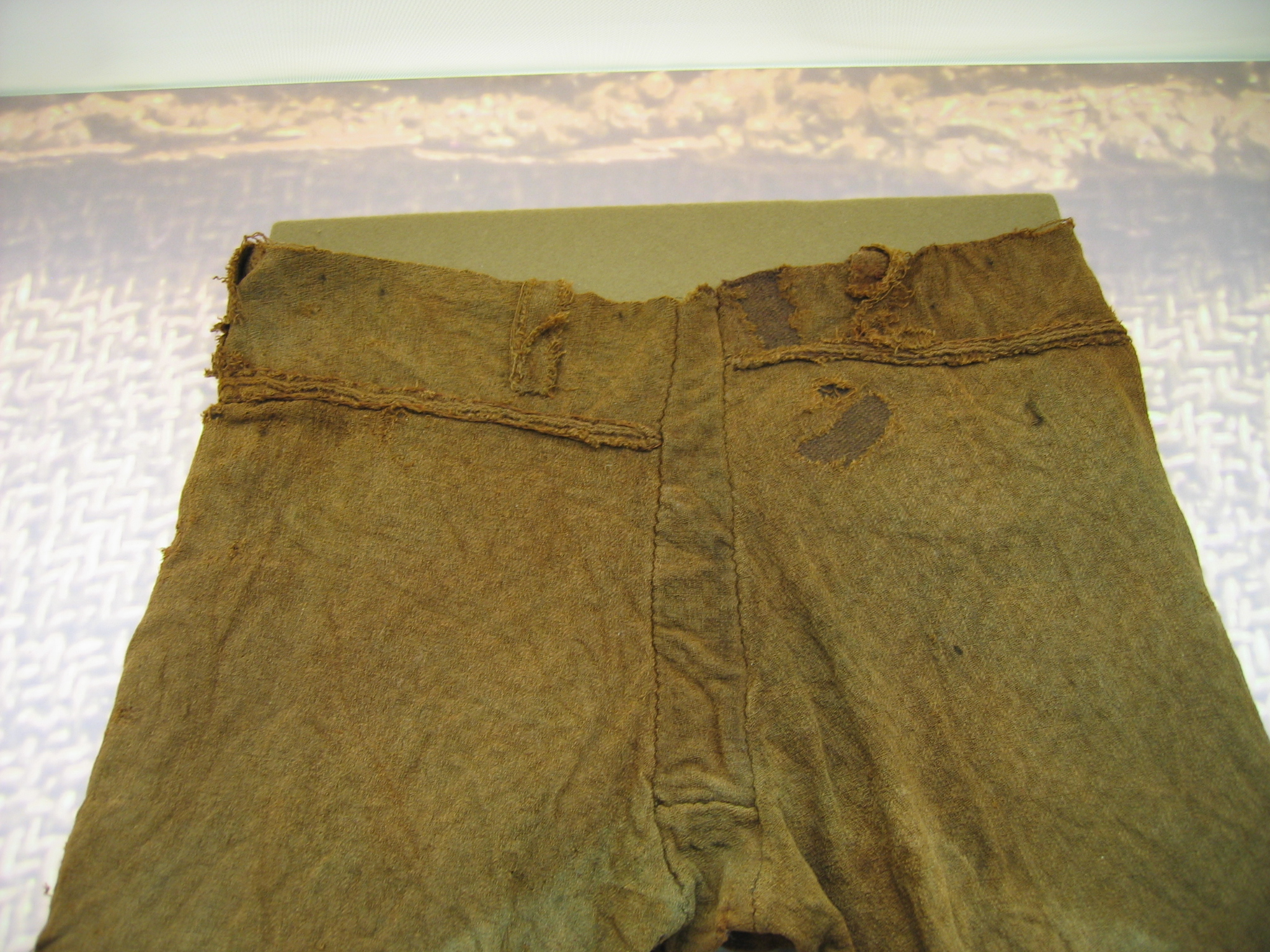 TWaistband of a pair of trousers from the Thorsberg Bog in Schleswig-Holstein, Germany, approx. mid 4th century.